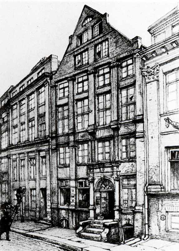 Residential- and commercial building in the "Neuer Wandrahm 92" in Hamburg (Germany) from Arthur Schopenhauer's father, Heinrich Floris Schopenhauer. Residence of Arthur Schopenhauer from 1793 to 1805.